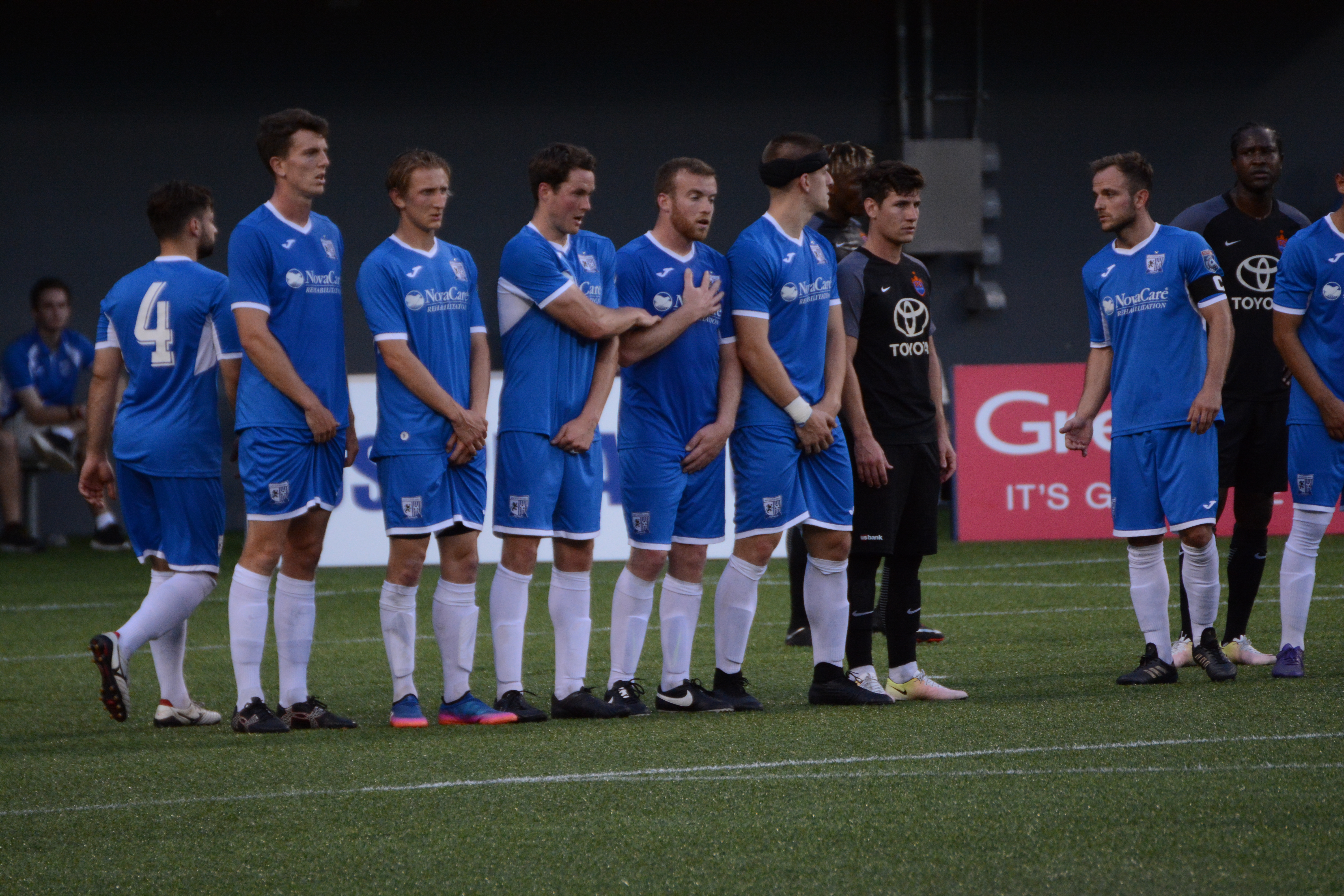 Declan McGivern, Skye Harter, Ben Truax, Tom Beck, Coletun Long, Eric Stevenson, Admir Suljevic, Djiby Fall Taken at a Lamar Hunt U.S. Open Cup match between FC Cincinnati and AFC Cleveland at Nippert Stadium in Cincinnati, Ohio on May 17, 2017.